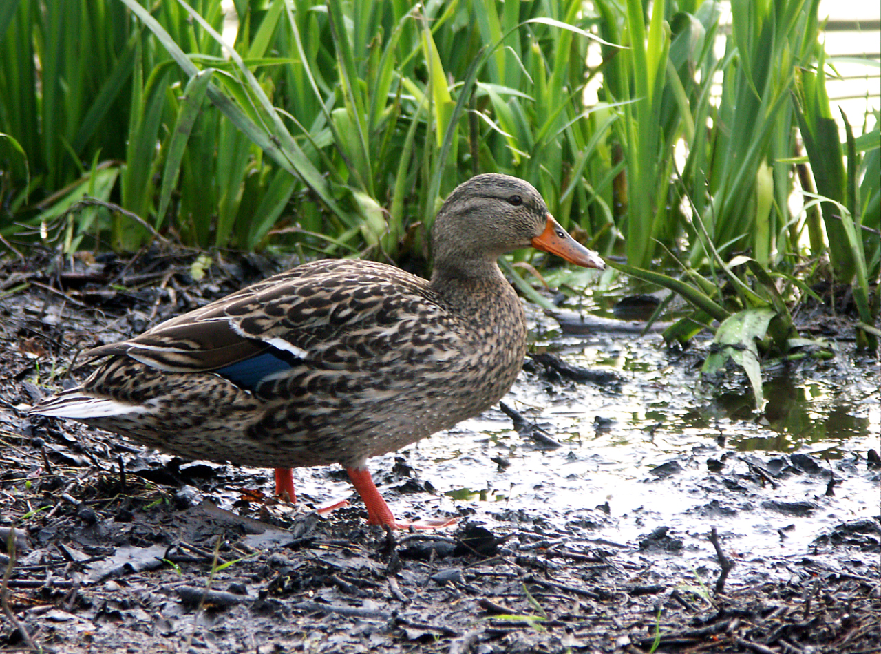 Mallard (Anas platyrhynchos), female. Picture taken in Eslöv, Sweden.